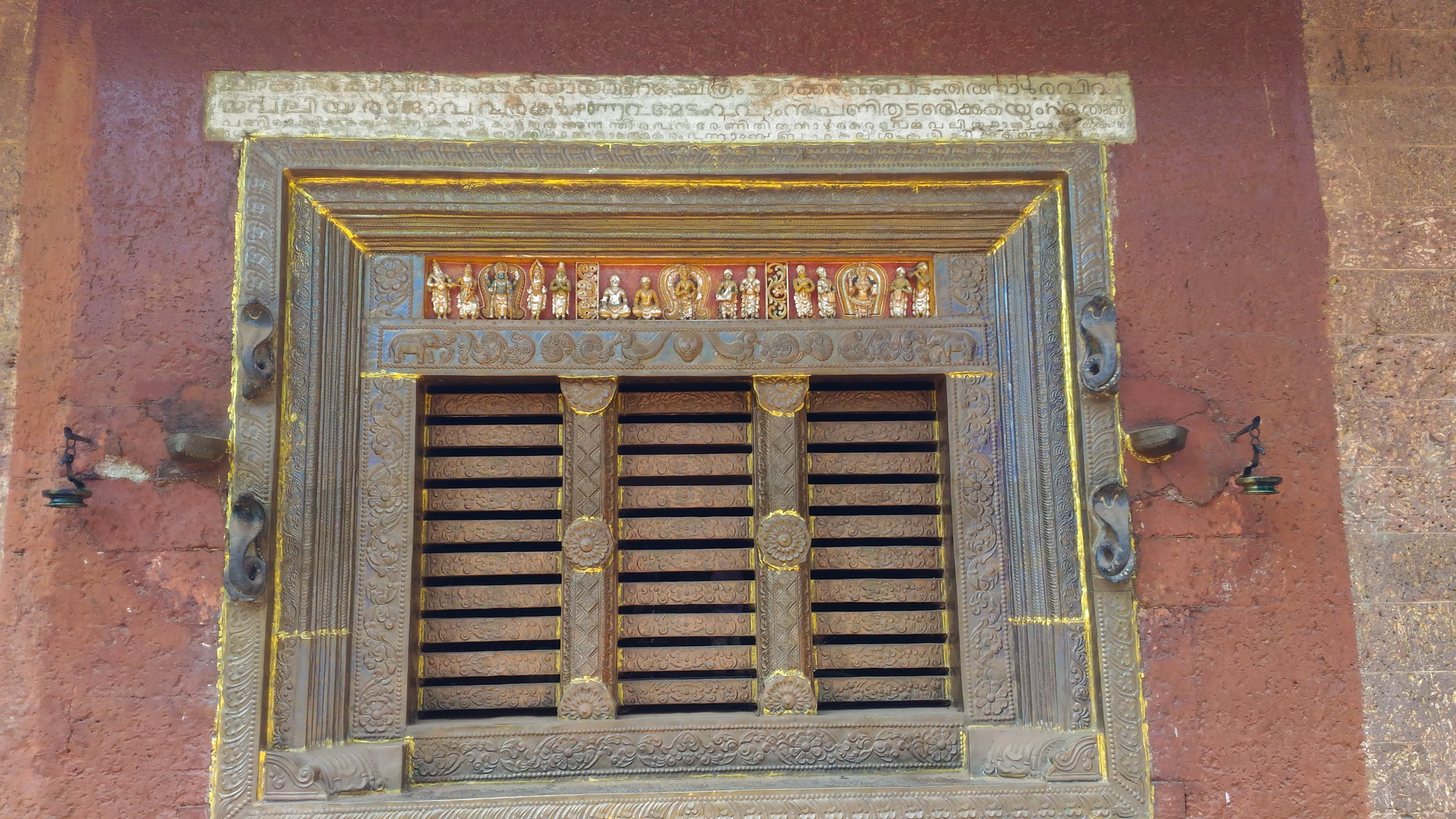 Stoneinscription - thaliparambu rajarajeswara temple